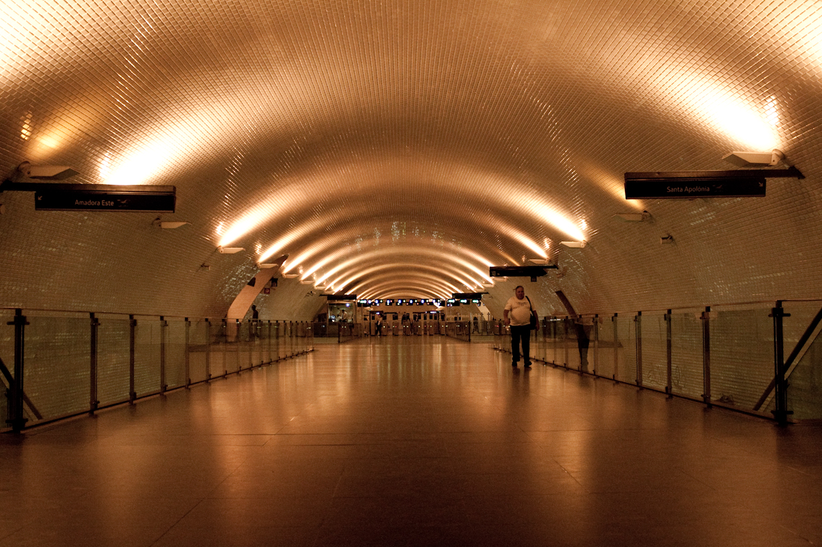 Baixa Chiado, Lisboa.